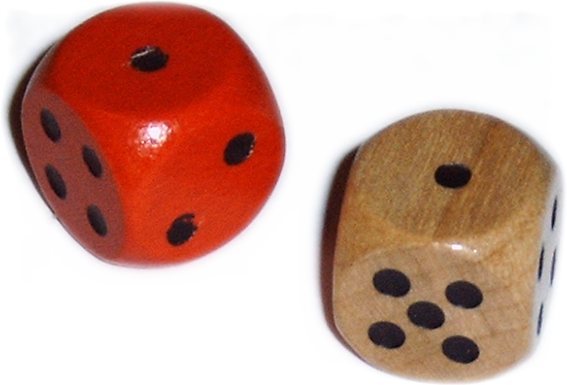 Two dices showing one and one eye